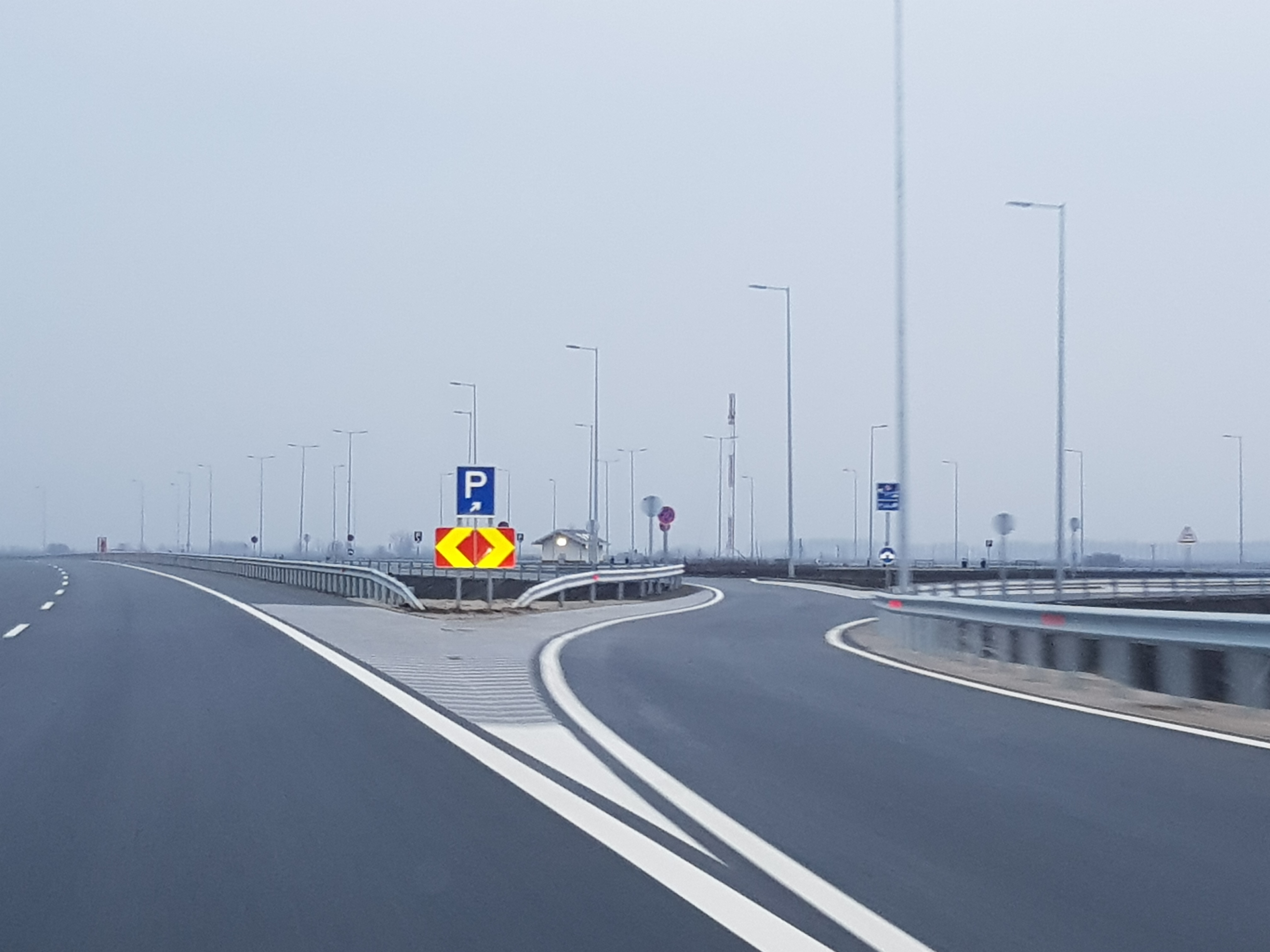 Reststation at Derecske (M35 motorway, Hungary)